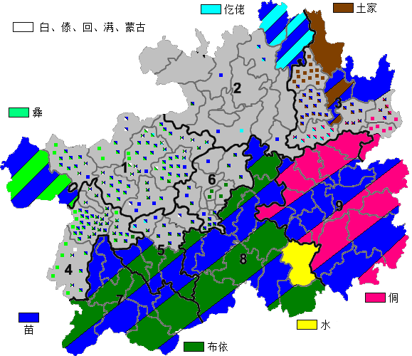 Autonomies in Guizhou